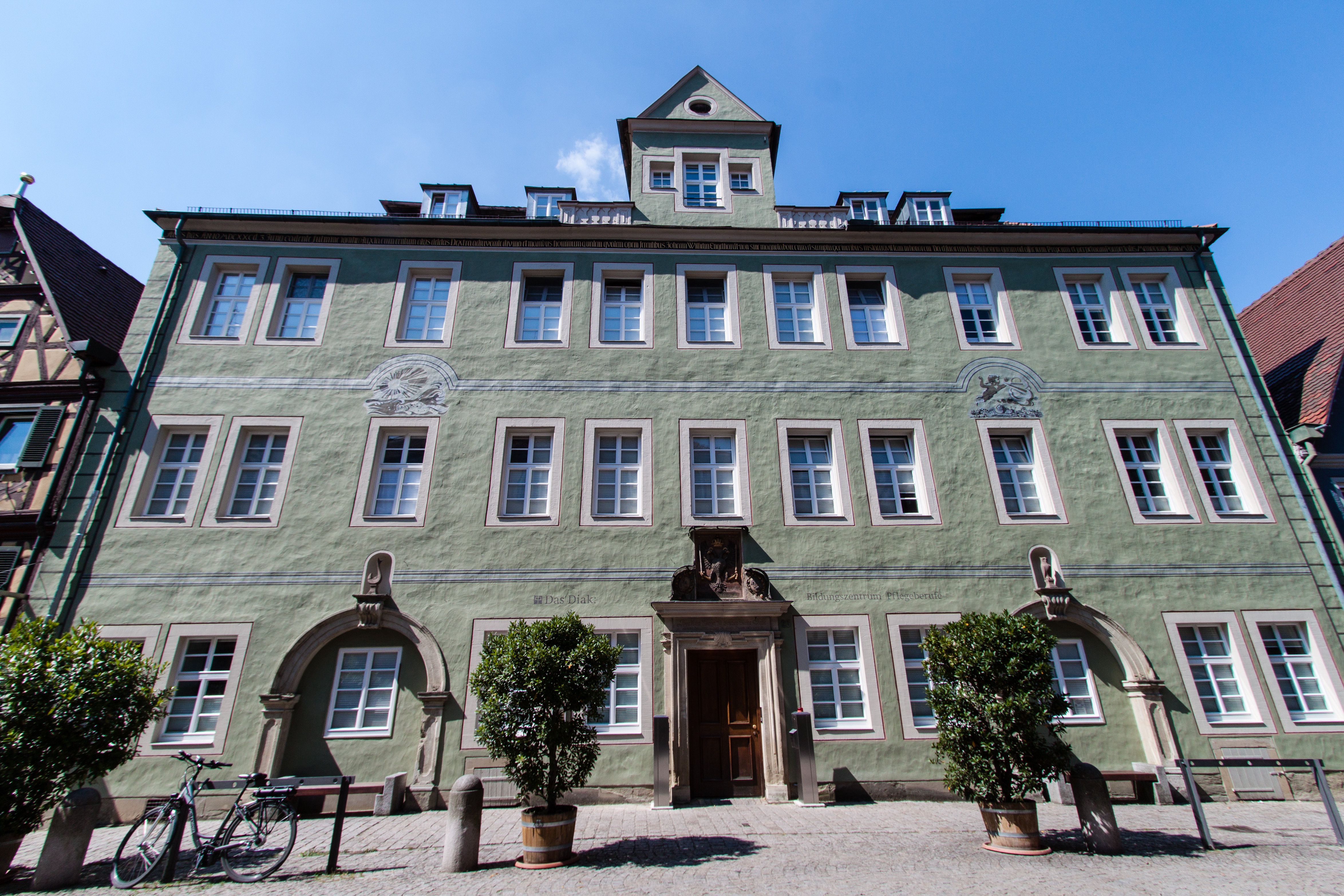 Engelhardt palace in Schwaebisch Hall Germany